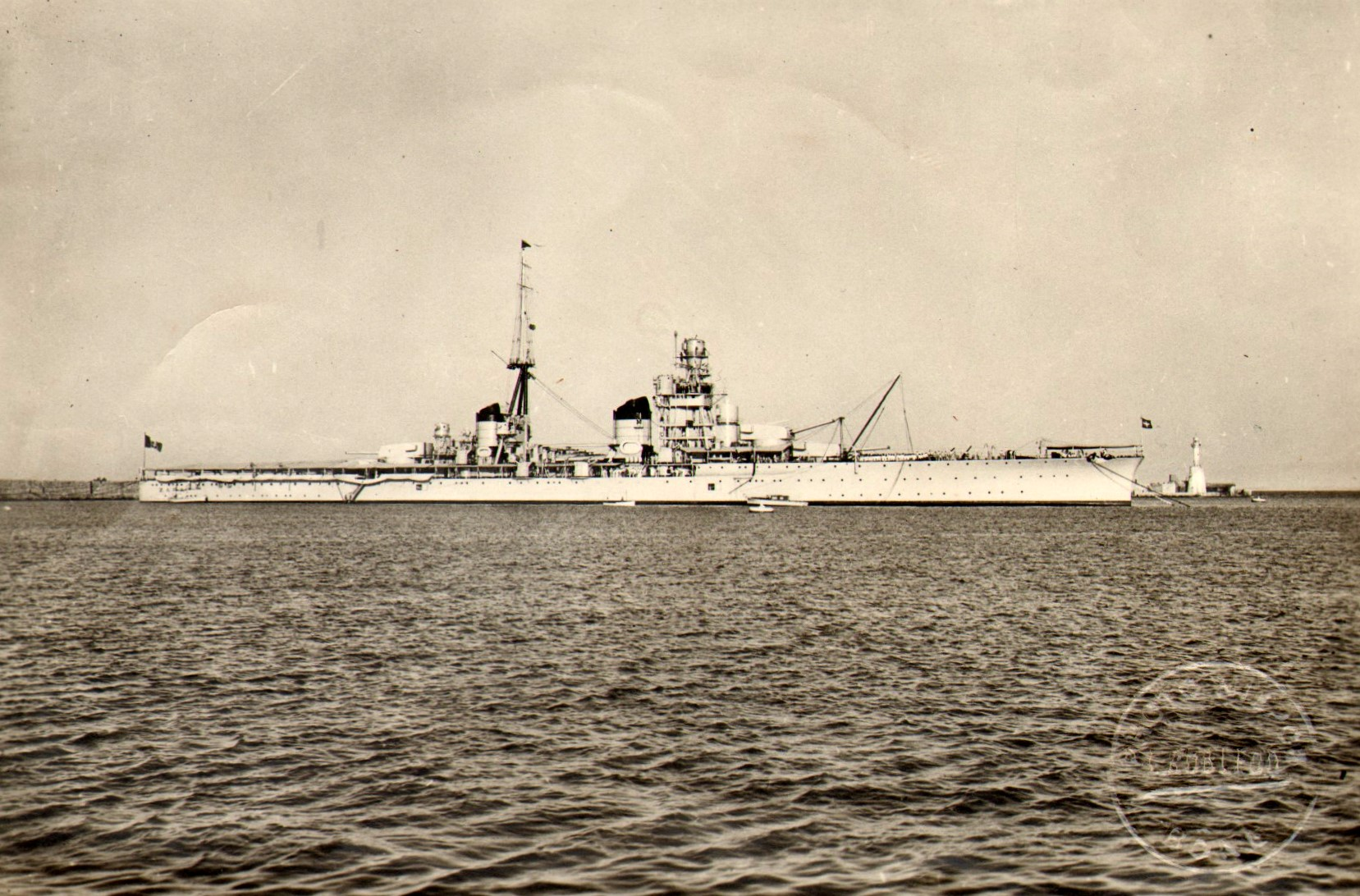 HM Ship Zara. The original picture, scanned by Emiliano Burzagli, belongs to the Private archive of Burzaghi family, Italy.